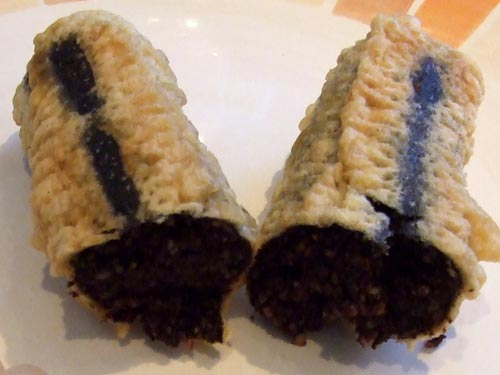 Photo of battered black pudding, found in chip shops in Scotland